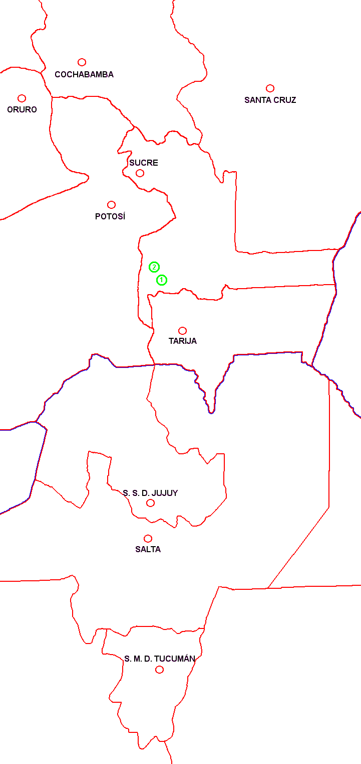 Rebutia friedrichiana - range map